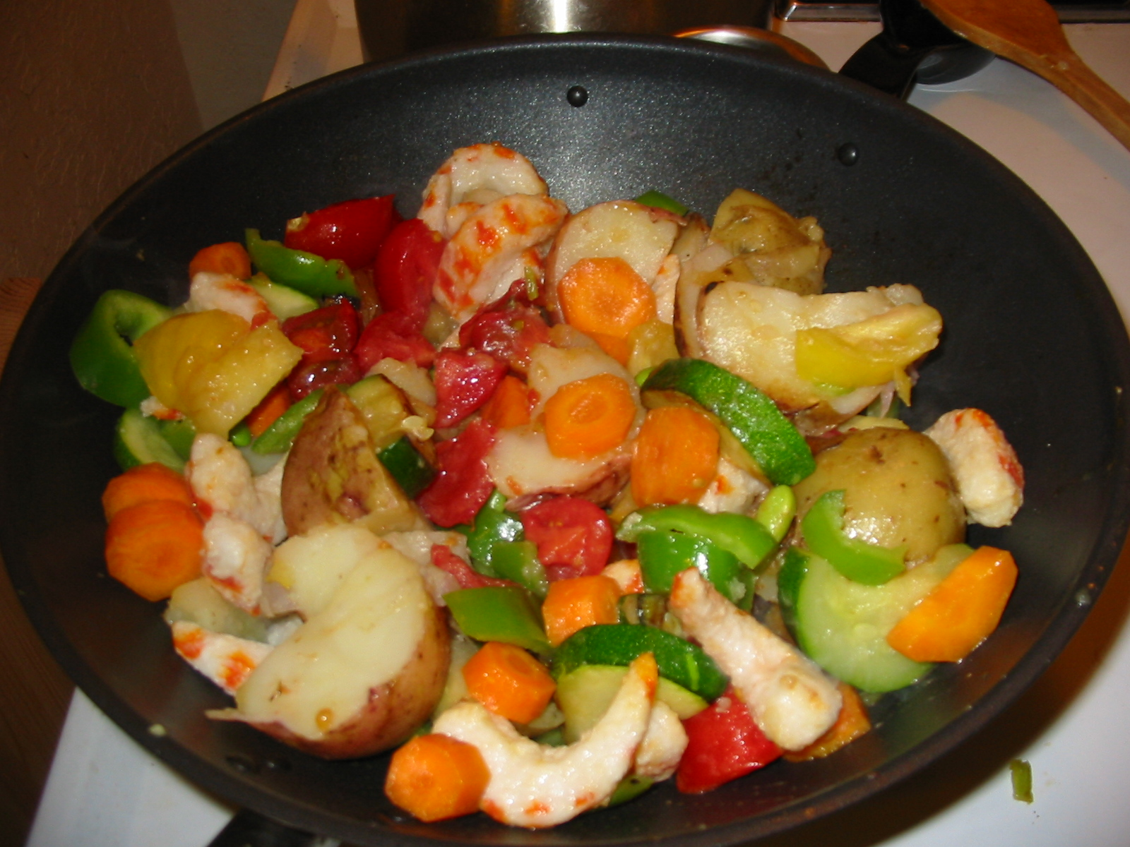 Getting ready to curry